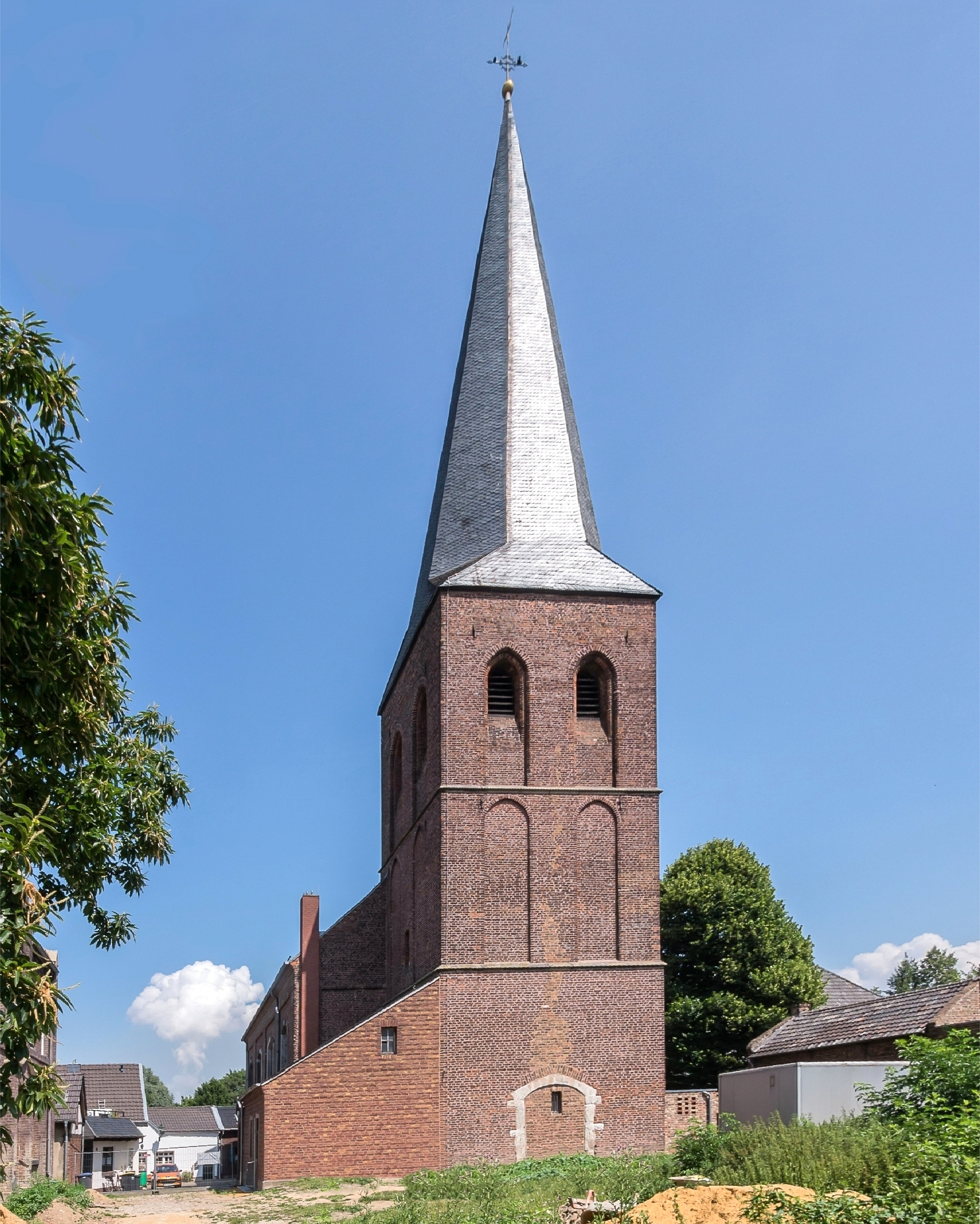 Kaster - Kirchstraße 43 Sankt-Georg-Kirche, Alt-Kaster IThis is a photograph of an architectural monument., no. 62